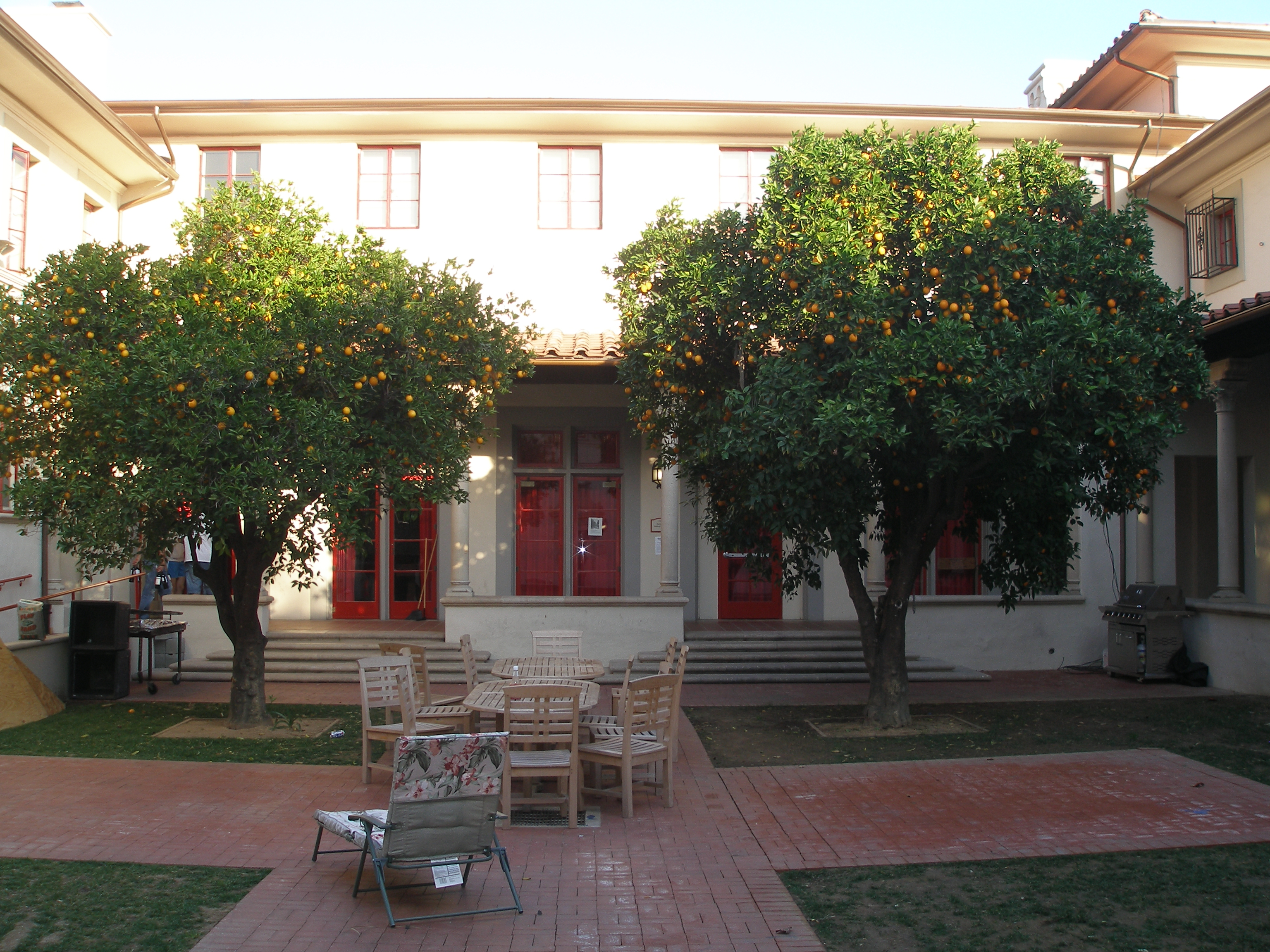 Fleming House courtyard at the California Institute of Technology, in February 2008. The 1931 building, of the South Houses group, was designed in the Mediterranean Revival style by architect Gordon Kaufmann.